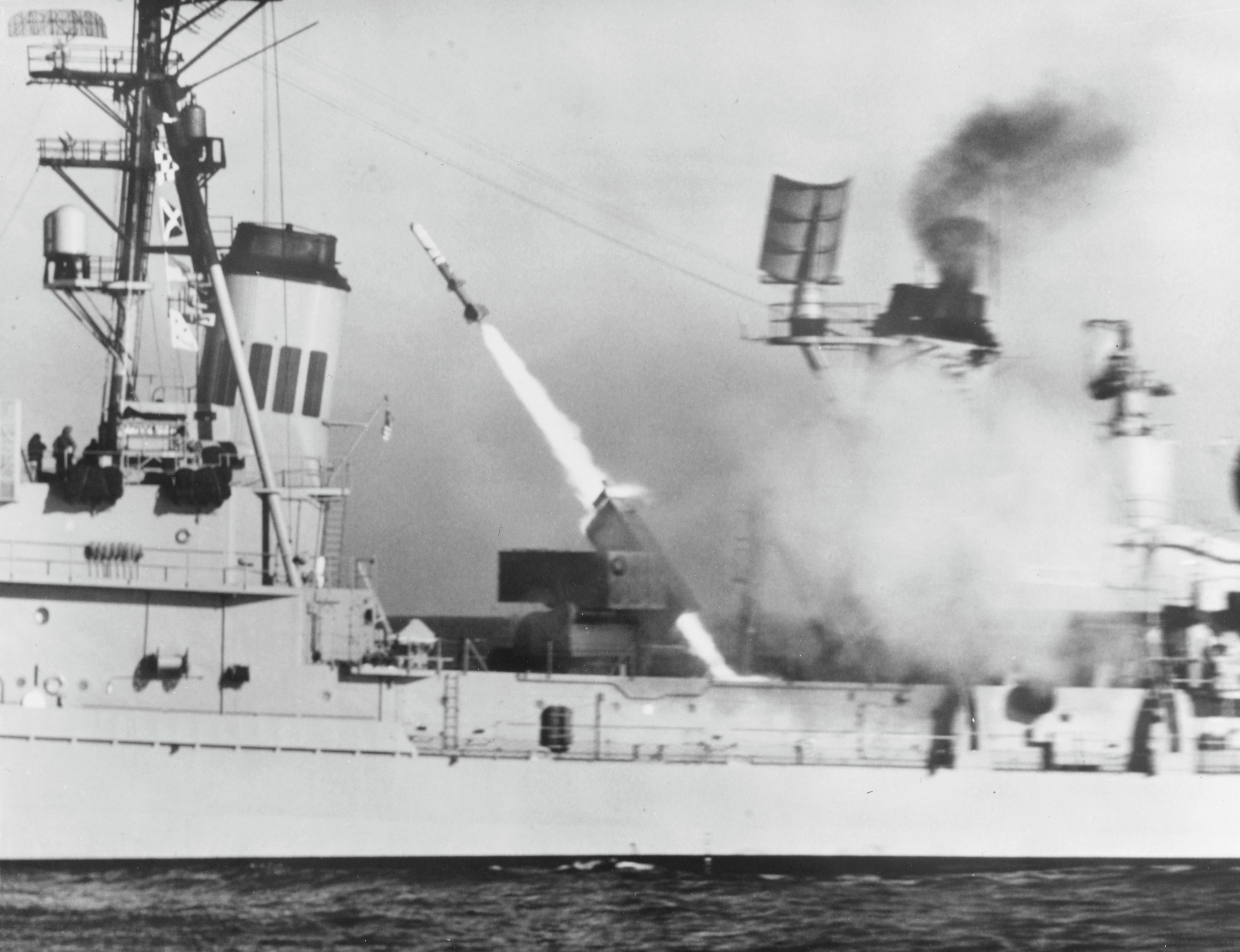 The U.S. Navy guided missile destroyer USS Charles F. Adams (DDG-2) launches a RUR-5 ASROC missile from the Mark 112 "Matchbox" launcher on 18 November 1960. The photo was taken from the patrol vessel USS Rockville (EPCE(R)-851).